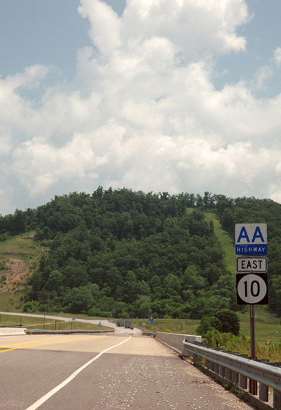 AA Highway/KY 10 in Greenup County, Kentucky.